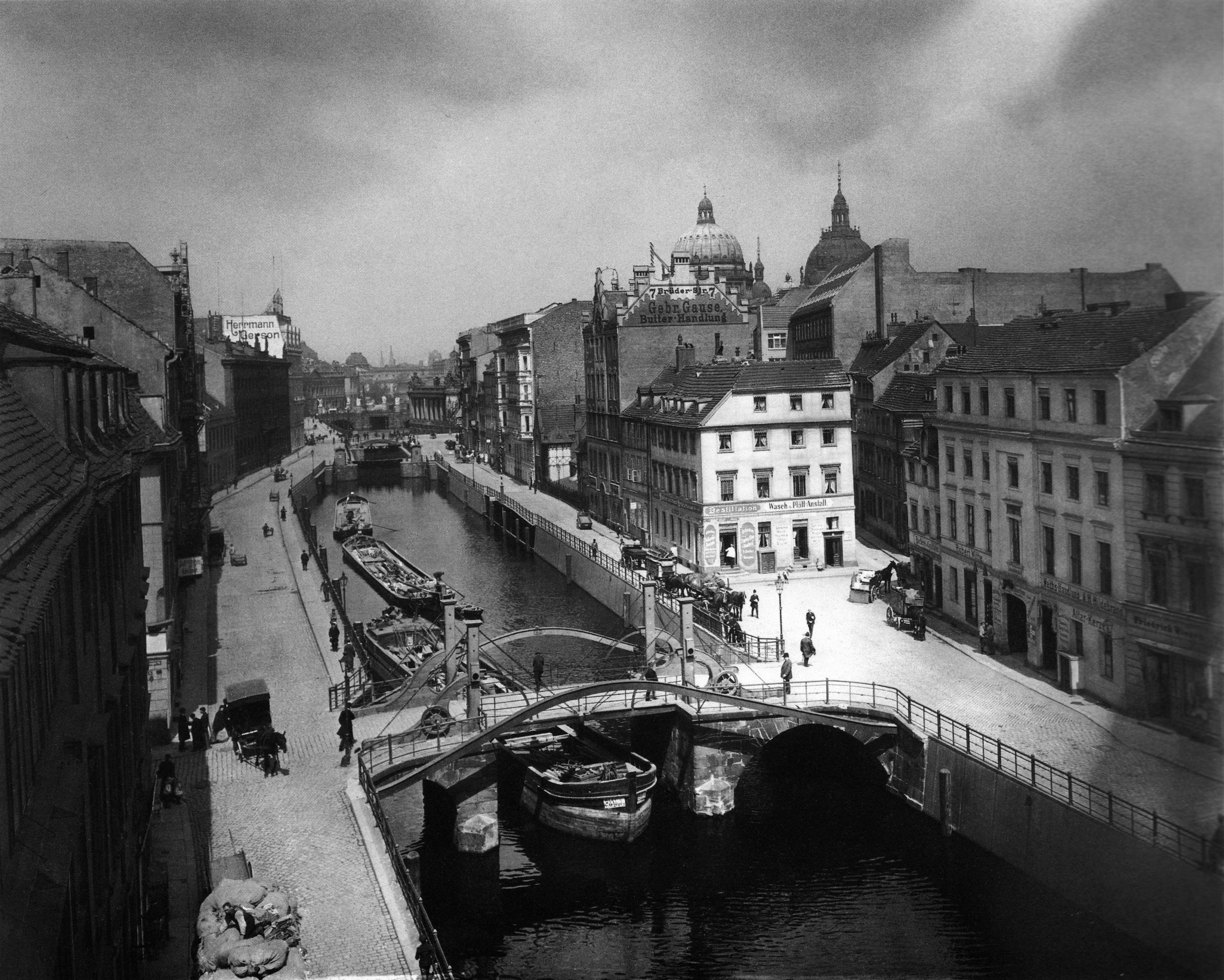 The Schleusengraben (“watergate moat”) on the western side of Spree Island in what is now Mitte district, Berlin. In the foreground is the Jungfernbrücke (“virgins bridge”).